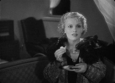 Still from the Italian film La signora di tutti (1934) with Isa Miranda.